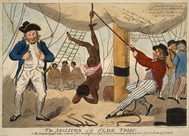 Title: The abolition of the slave trade Abstract: Print shows sailor on a slave ship suspending an African girl by her ankle from a rope over a pulley. Captain John Kimber stands on the left with a whip in his hand. Physical description: 1 print : etching, hand-colored ; plate 24.9 x 34.9 cm on sheet 26.8 x 39.8 cm. Notes: Attributed to I. Cruikshank in BM CPPS.; Forms part of: British Cartoon Prints Collection (Library of Congress).; Title from item.